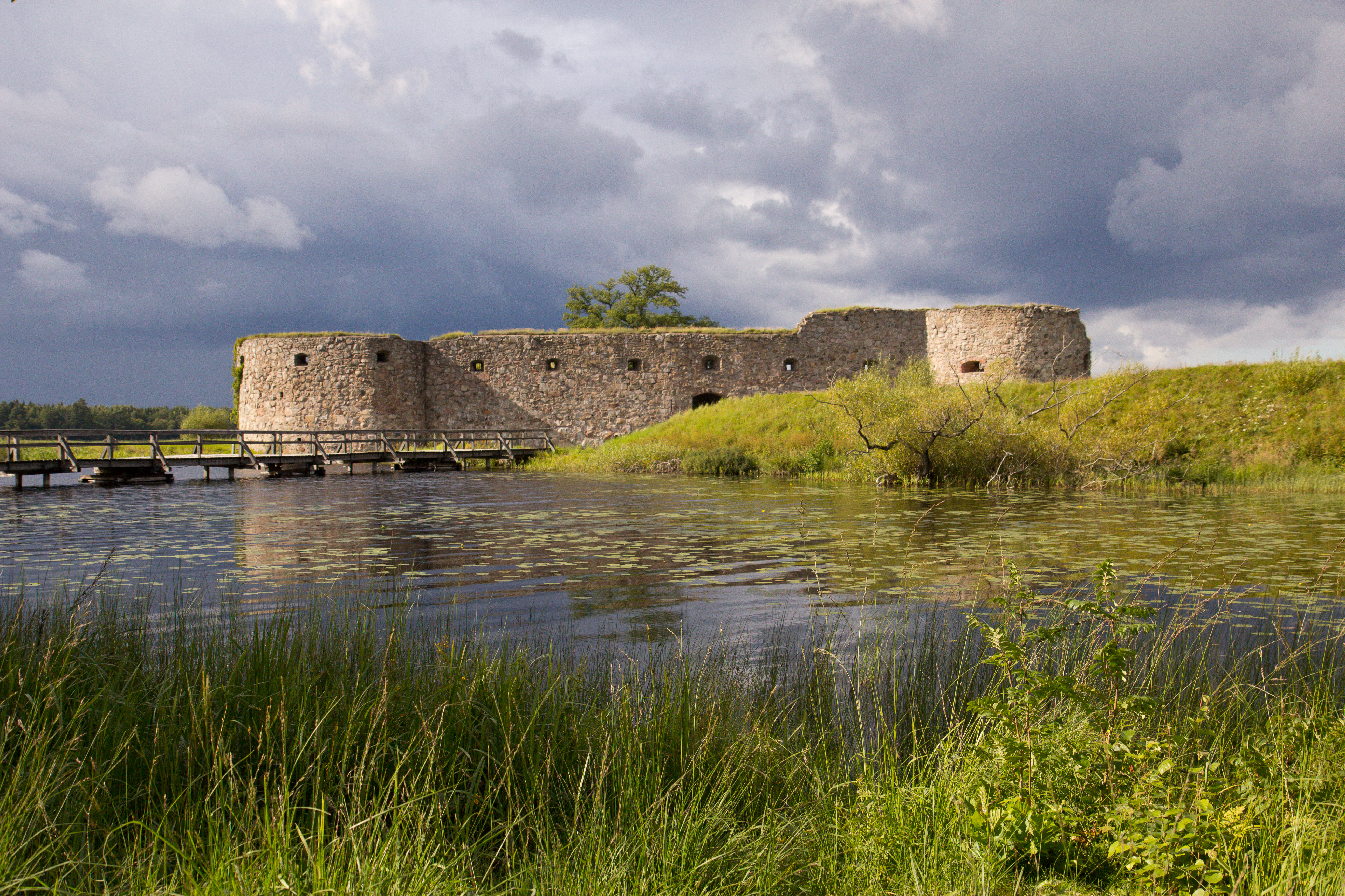 Ruins of Kronoberg Castle, Växjö, Småland, Sweden.